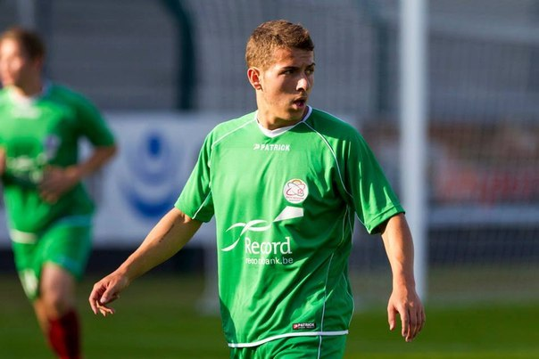 Килиан Азар / Kylian Hazard / HAZARD